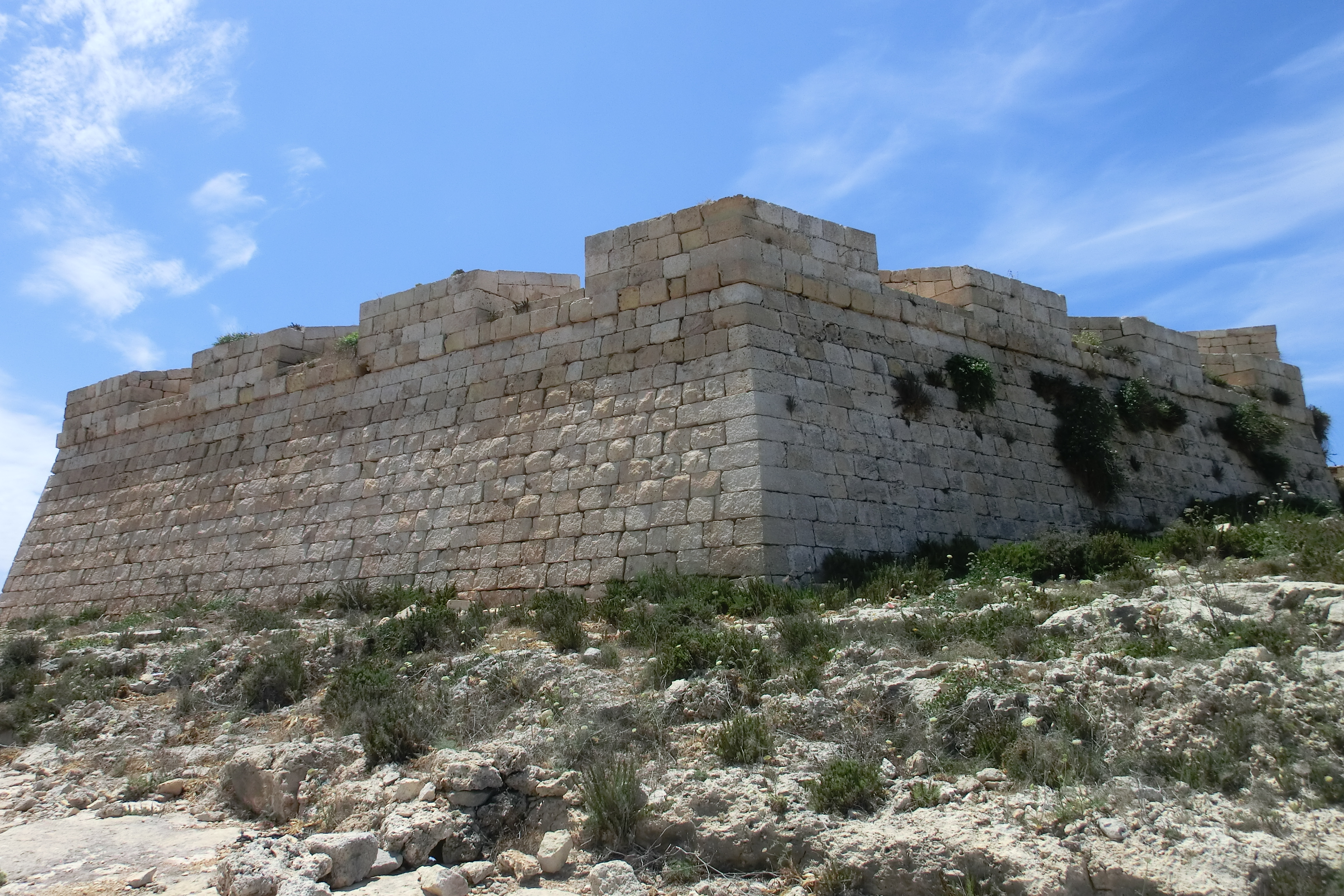 Parapet of Saint Anthony's Battery, Qala, Gozo, Malta.